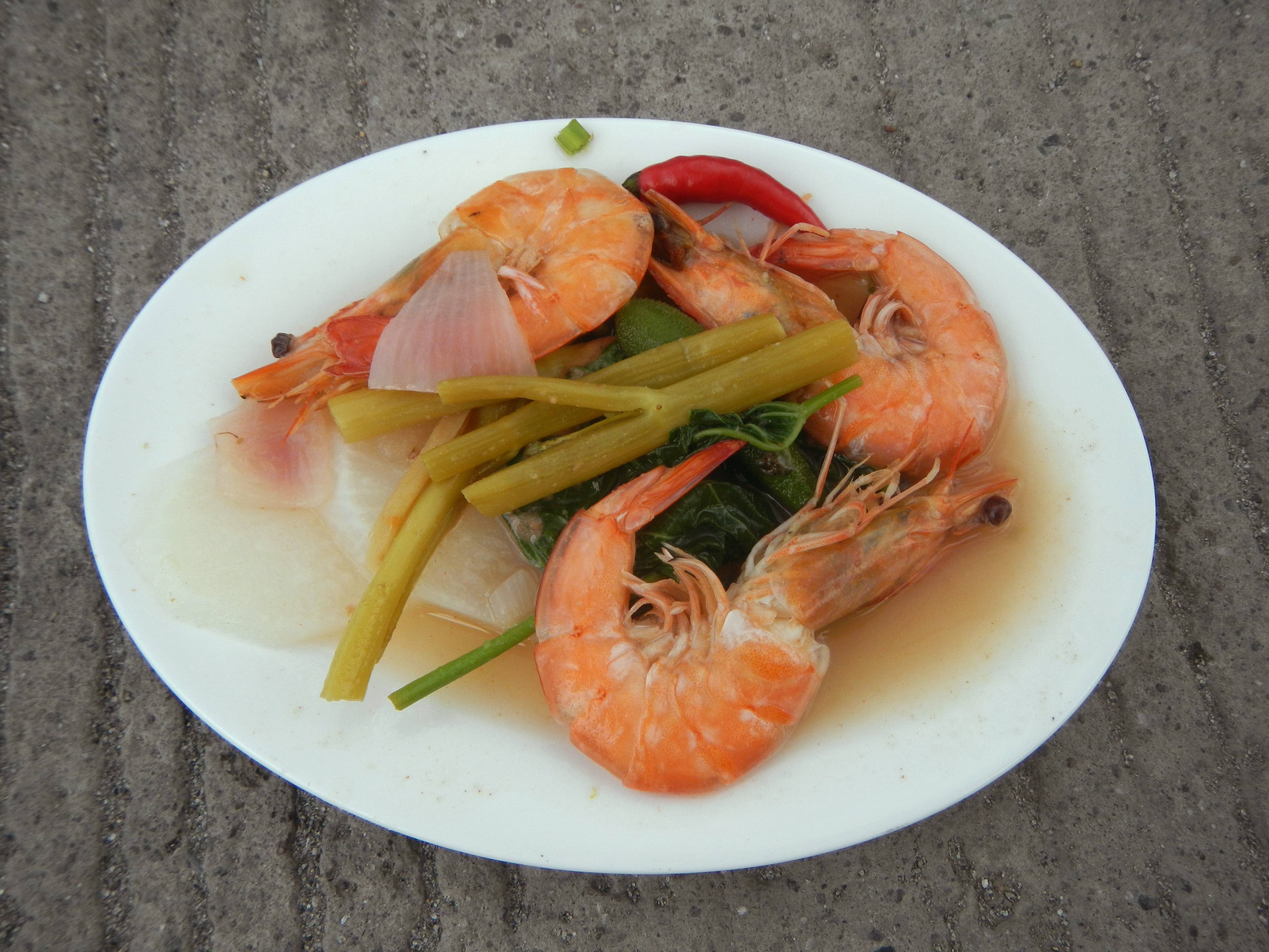 Bangus and Sinigang na Hipon (Note: Judge Florentino Floro, the owner, to repeat, Donor Florentino Floro of all these photos hereby donate gratuitously, freely and unconditionally all these photos to and for Wikimedia Commons, exclusively, for public use of the public domain, and again without any condition whatsoever).